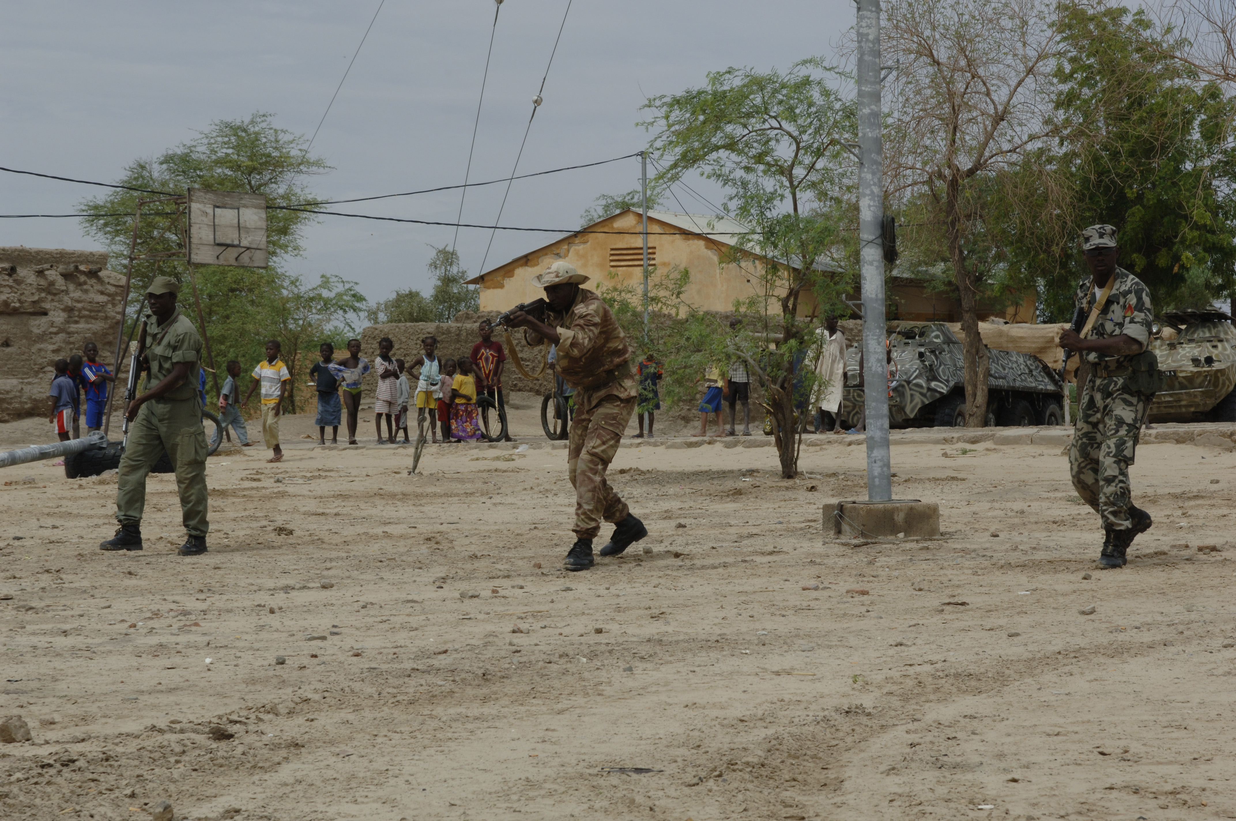 070904-F-4406B-139 Members of the Malian army conduct drills to instruct new recruits during exercise Flintlock 2007 in Tombouctou, Mali, Sept. 4, 2007. The Malian army recently received the training from U.S. Army Soldiers from the 3rd Special Forces Group out of Fort Bragg, N.C. The exercise, which is meant to foster relationships of peace, security and cooperation among the Trans-Sahara nations, is part of the Trans-Sahara Counterterrorism Partnership. The TSCTP is an integrated, multi-agency effort of the U.S. State Department, U.S. Agency for International Development and the U.S. Defense Department. (U.S. Air Force photo by Master Sgt. Ken Bergmann) (Released) Photographer's Name: MASTER SGT. KEN BERGMANNLocation: Tombouctou Date Shot: 9/4/2007Date Posted: unknownVIRIN: 070904-F-4406B-139